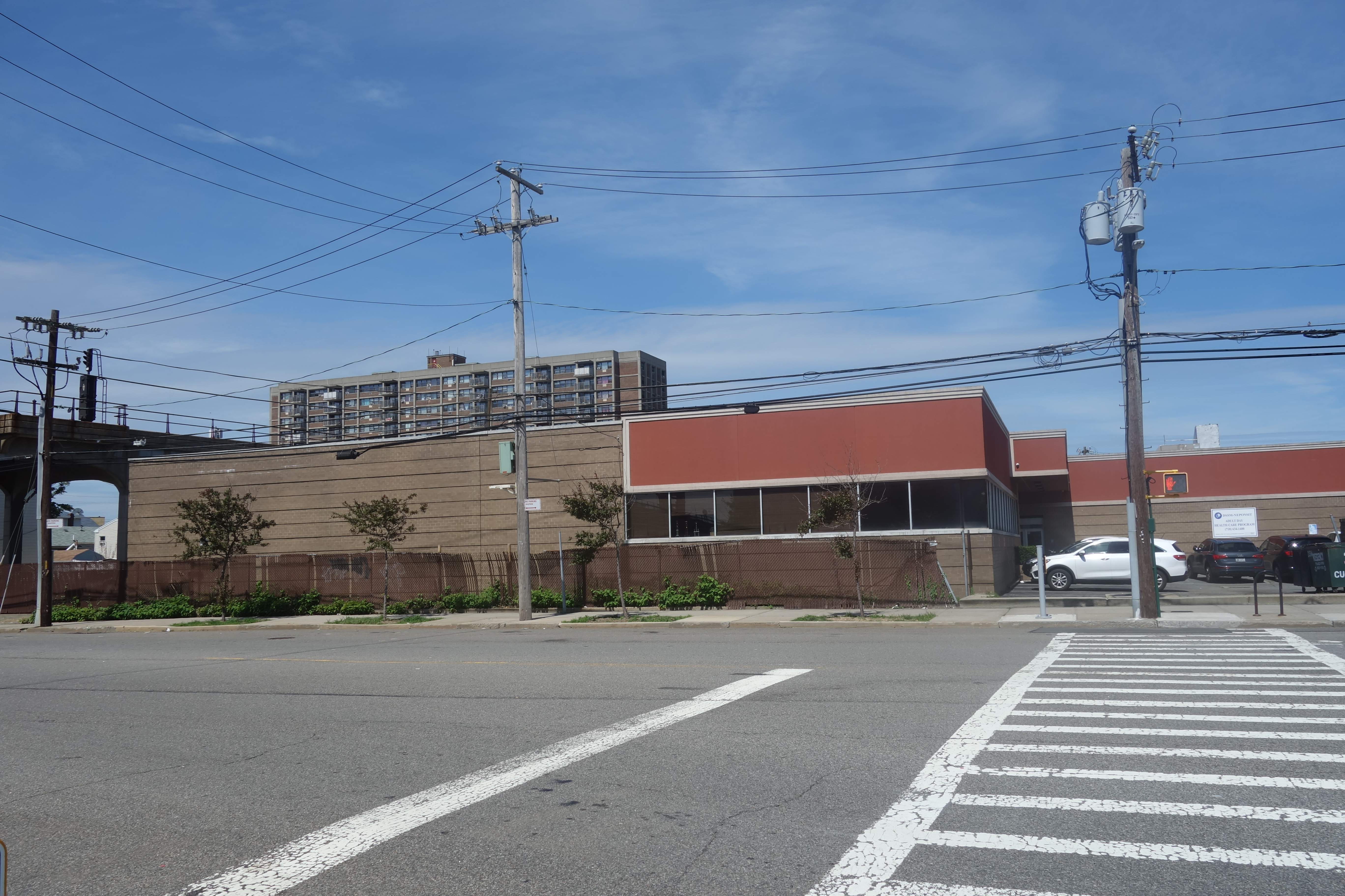 The Sands Point Physical Therapy building (2-30 Beach 102nd Street) at Rockaway Beach Boulevard and Beach 102nd Street in Seaside / Rockaway Beach, Queens. It also houses the Neponsit Adult Day Health Center, which was formerly located in Neponsit Beach Hospital farther west.